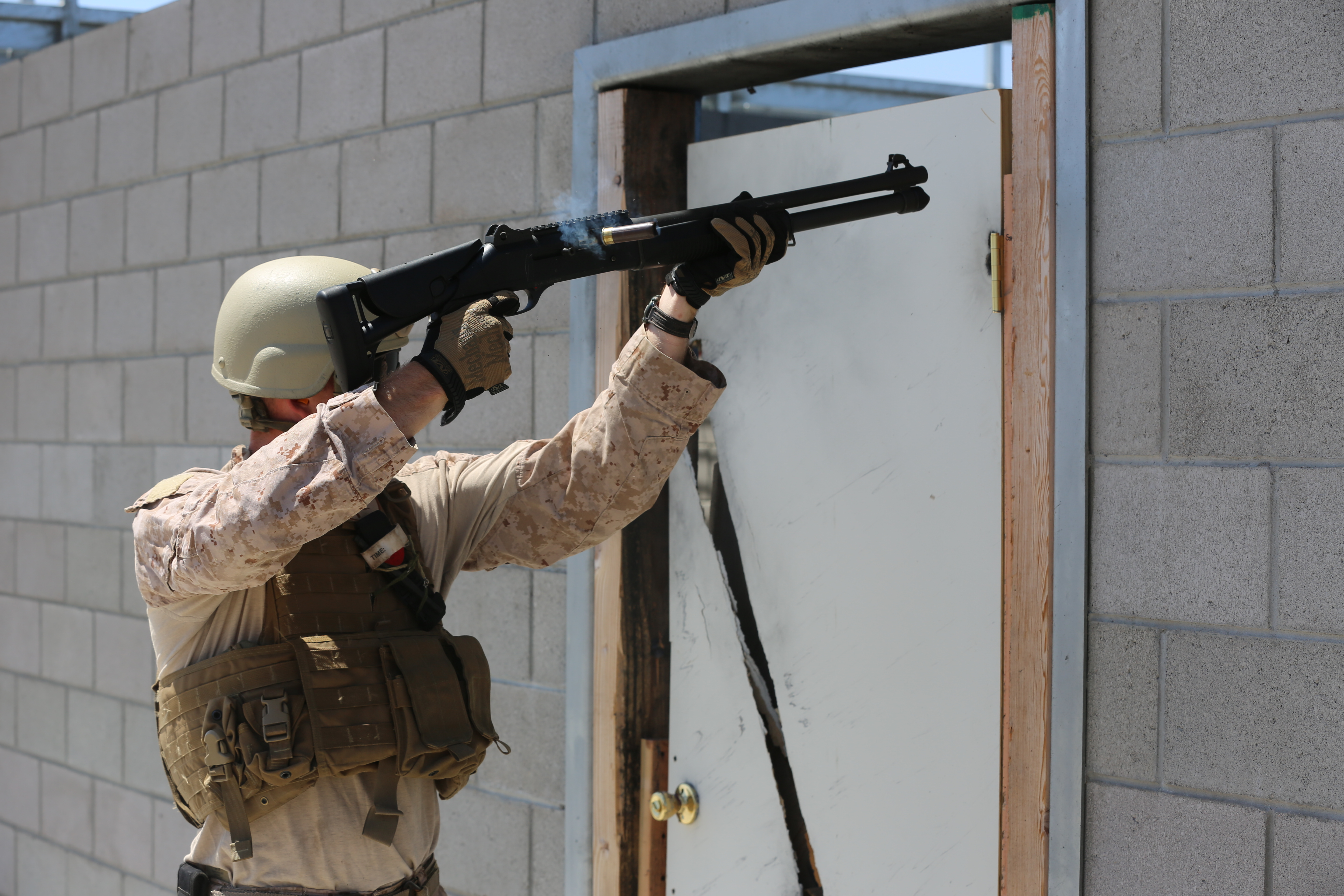 A Marine from 1st Reconnaissance Battalion fires breaching rounds into a door hinge during a Methods of Entry proficiency training exercise aboard Camp Pendleton Calif., June 10. During the exercise, raid scenarios were tailored for the event to keep the Marines in an operational mindset while honing their skill set for future deployments as the Maritime Raid Force in support of Marine Expeditionary Units.